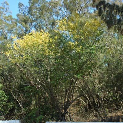 Haematoxylum campechianum